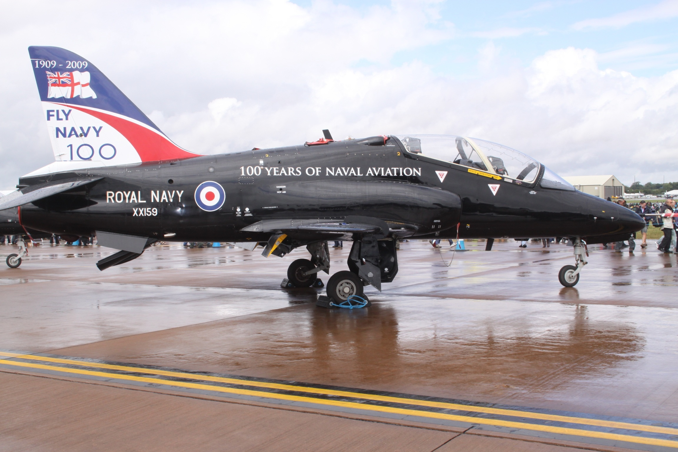 At the Fairford Airshow 2009 at RAF Fairford